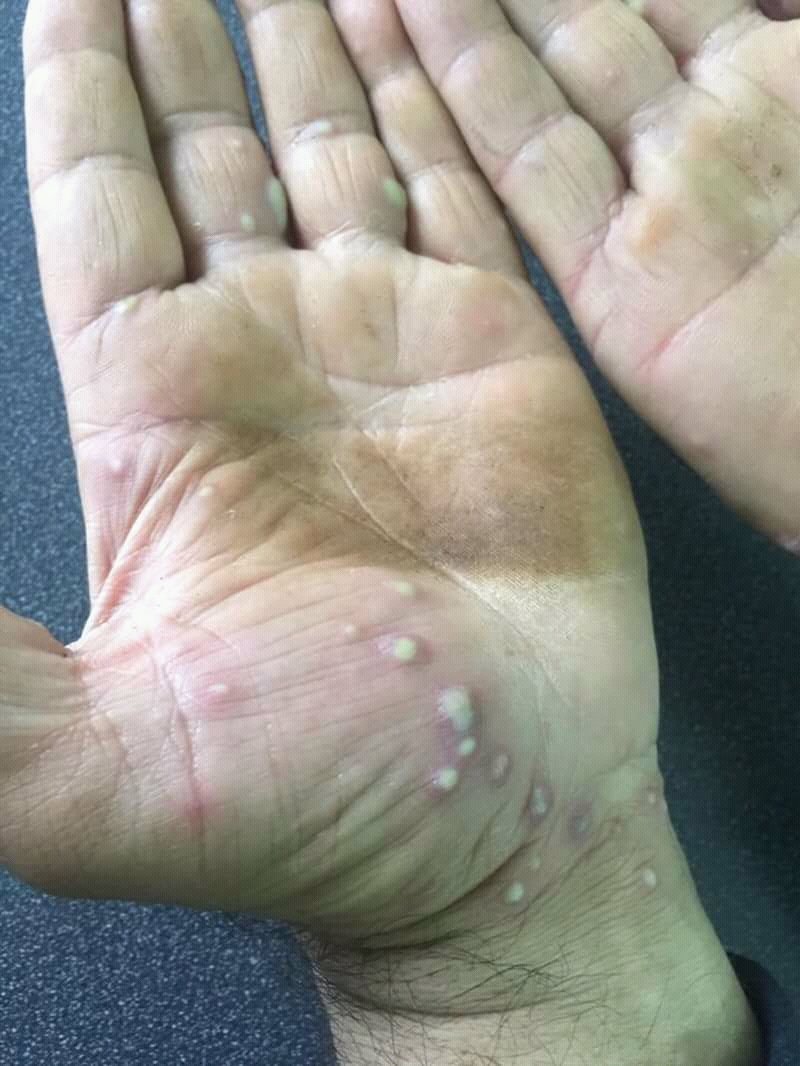 you have blisters or cracks on the palms of your hands or soles of your feet you can't explain, see a skin doctor (dermatologist). You may have palmoplantar pustulosis (PPP). This is an autoimmune disorder. That means your body sends antibodies to fight your own cells. There's no cure for PPP, but it can be treated and may go away and never return. However, it can come back. Symptoms PPP first appears as tiny blisters with yellow pus. Eventually, these turn brown and become scaly. PPP can also cause painful cracks in your skin. The blisters and sores can make it hard for you to walk comfortably or to use your hands without pain. Causes The cause is unclear, but there's a known link between PPP and smoking. Studies show that up to 90% of people with the skin condition smoke or once did. Nicotine in tobacco products can affect your skin cells and cause inflammation in your sweat glands, especially on your hands and feet. If you stop smoking, your symptoms may get better.